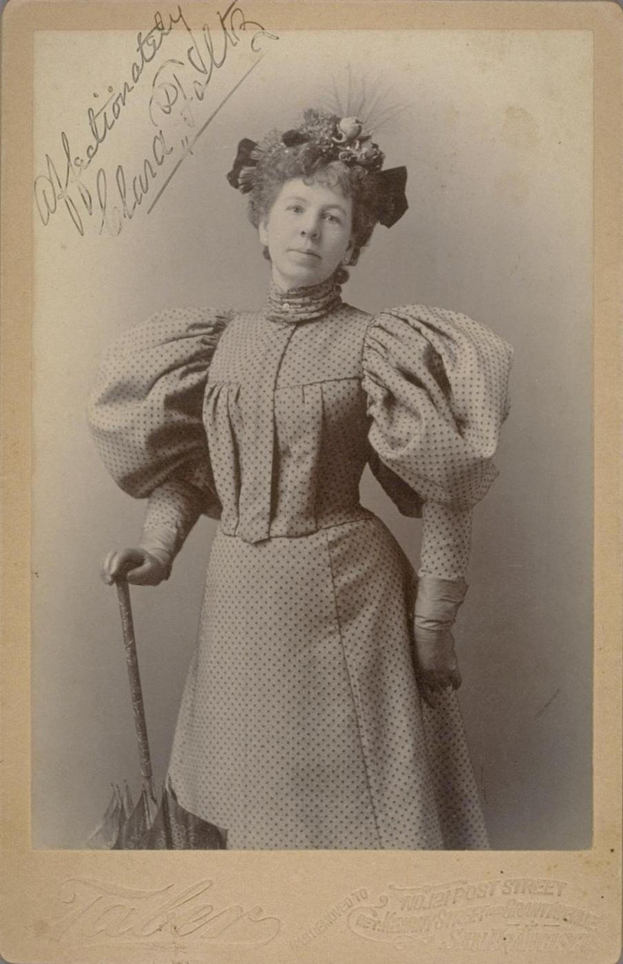 Clara S. Foltz (1849-1934), first female lawyer in California and on the West Coast of the U.S.